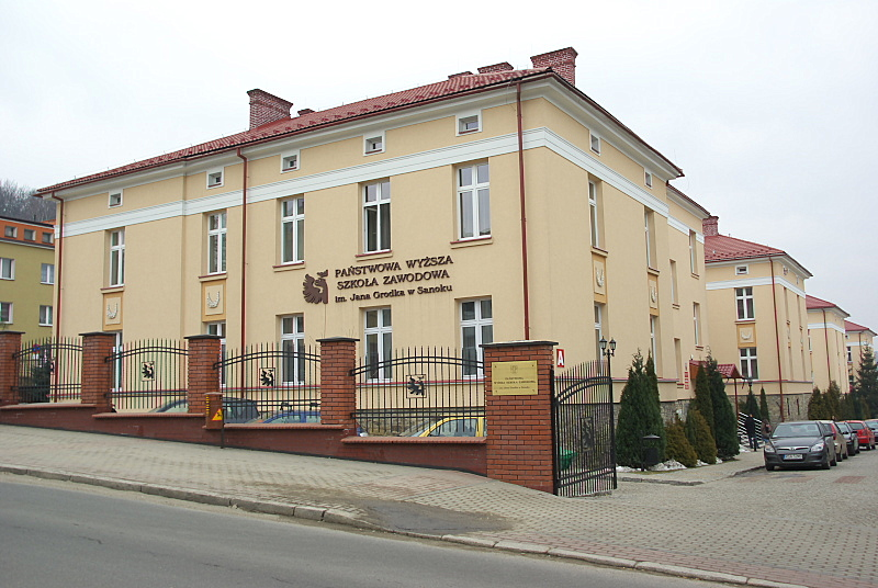 Jan Grodek State Vocational Academy in Sanok on the 21 Mickiewicza Street